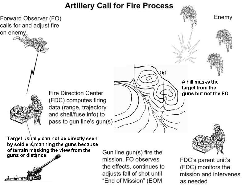 Graphic of the Artillery Call for Fire Process. The author of this graphic was US-trained artillery officer who composed this for information purposes and I release all rights. SIMONATL Graphic of the Artillery Call for Fire Process. The author of this graphic was US-trained artillery officer who composed this for information purposes and I release all rights. SIMONATL